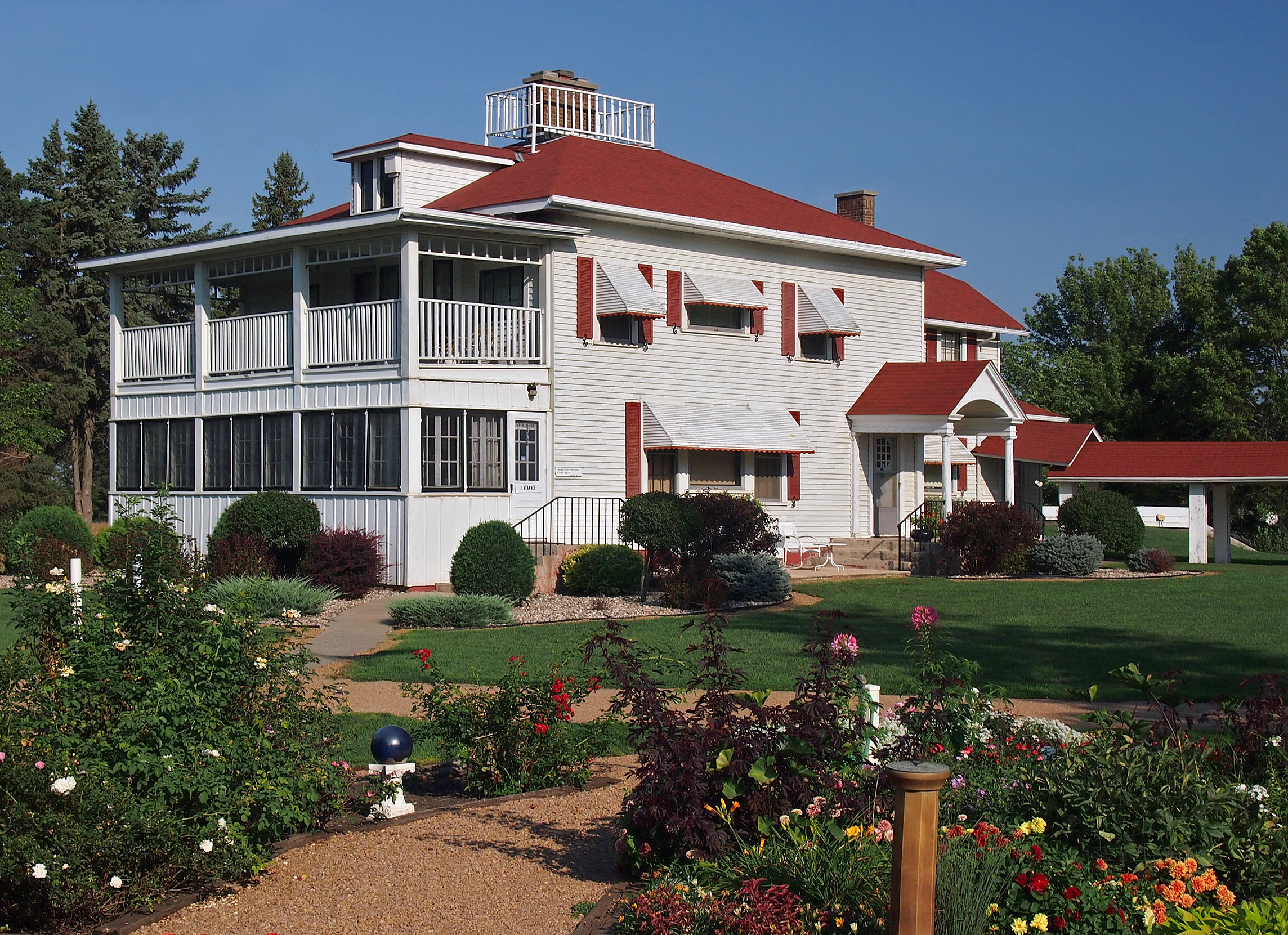 Gilfillan Estate farmhouse, Redwood Falls, Minnesota, USA